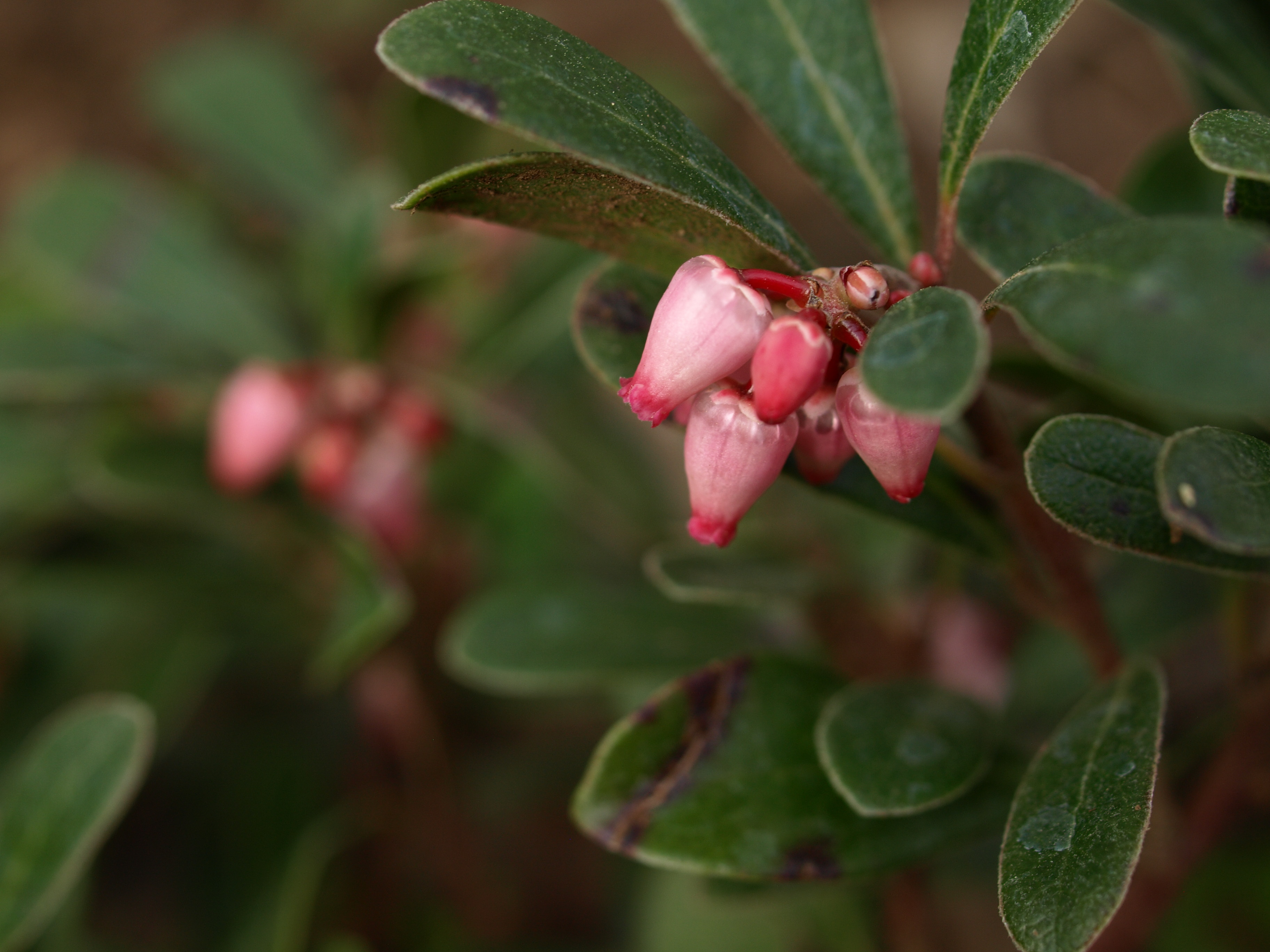 Bearberry flower in Portland, OR